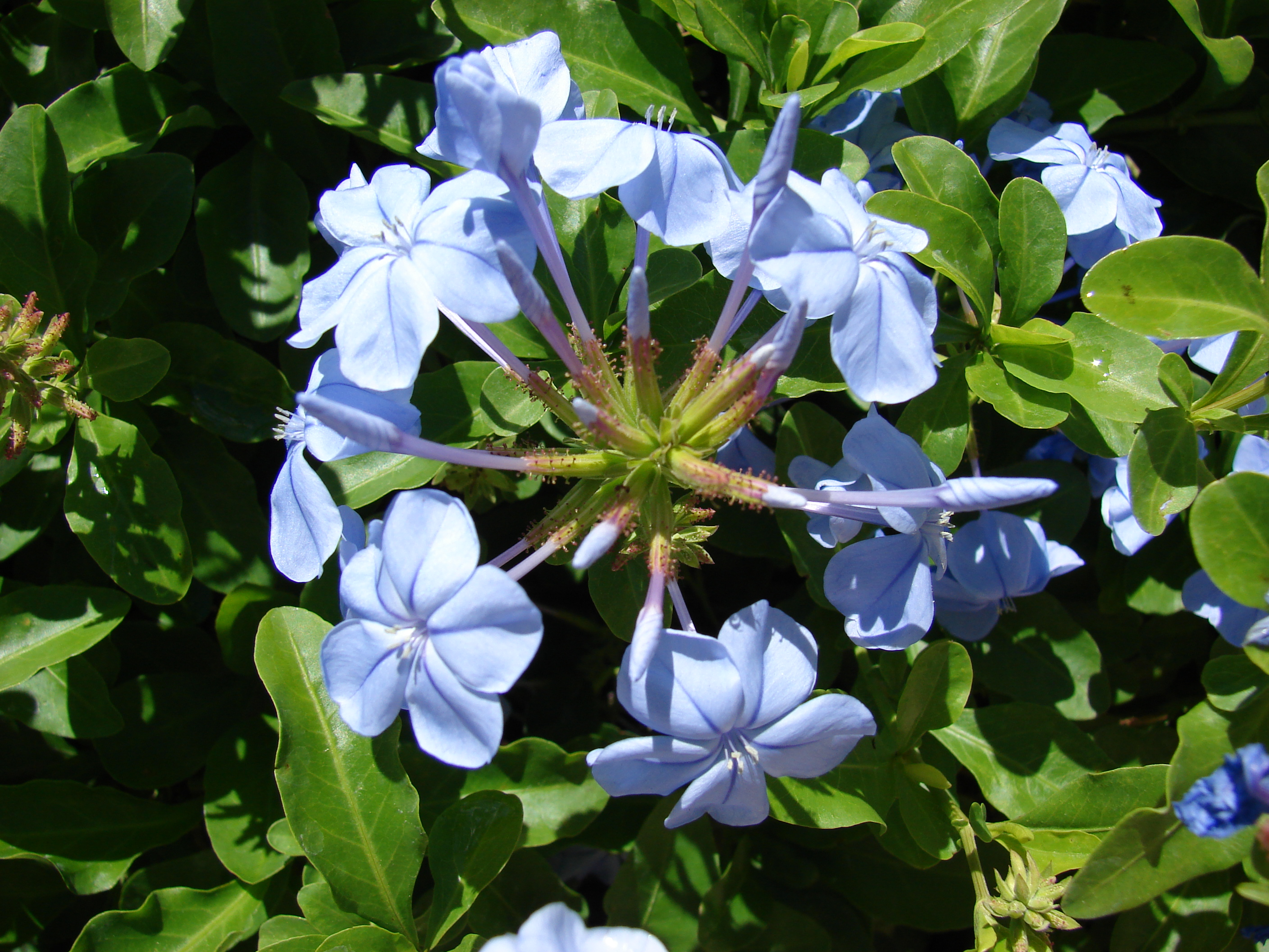 Plumbago auriculata (flowers). Location: Maui, Hookele Rd Kahului